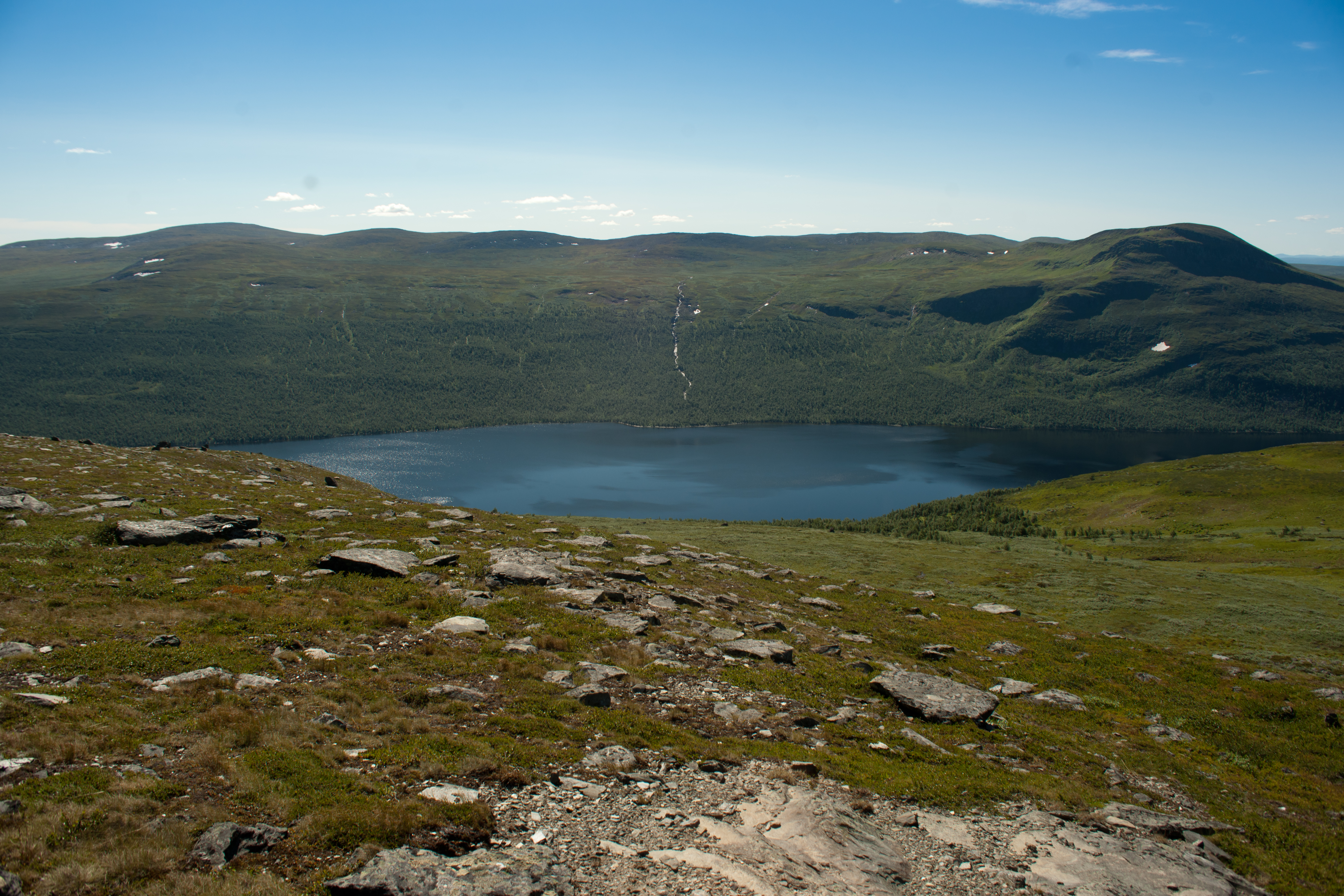 Stor-tjulträsket, Vindelfjällens Naturreservat, Sweden.